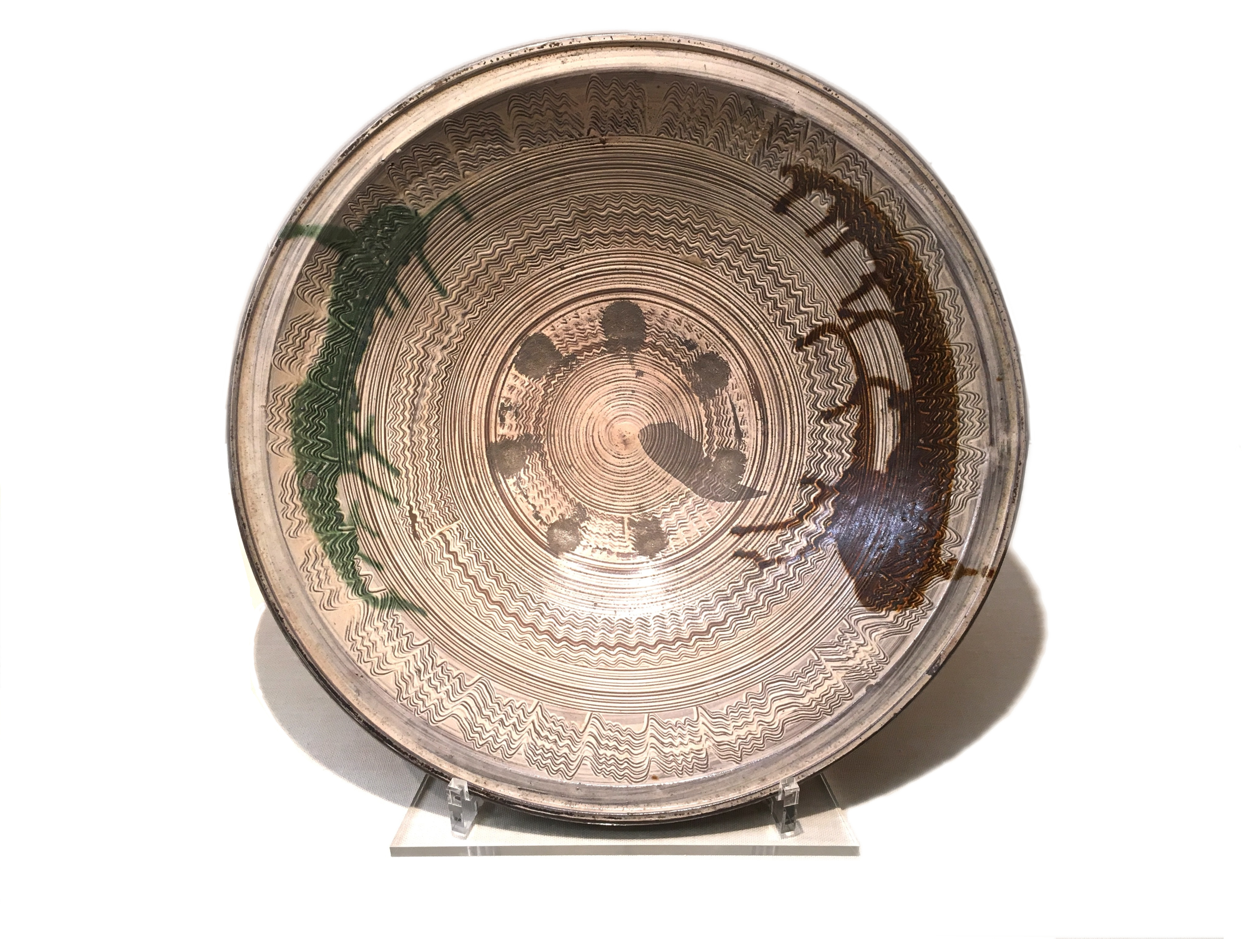 Shed glazed large bowl with comb-mark pattern Takeo ware Edo period, 18th century Aichi Prefectural Ceramic Museum